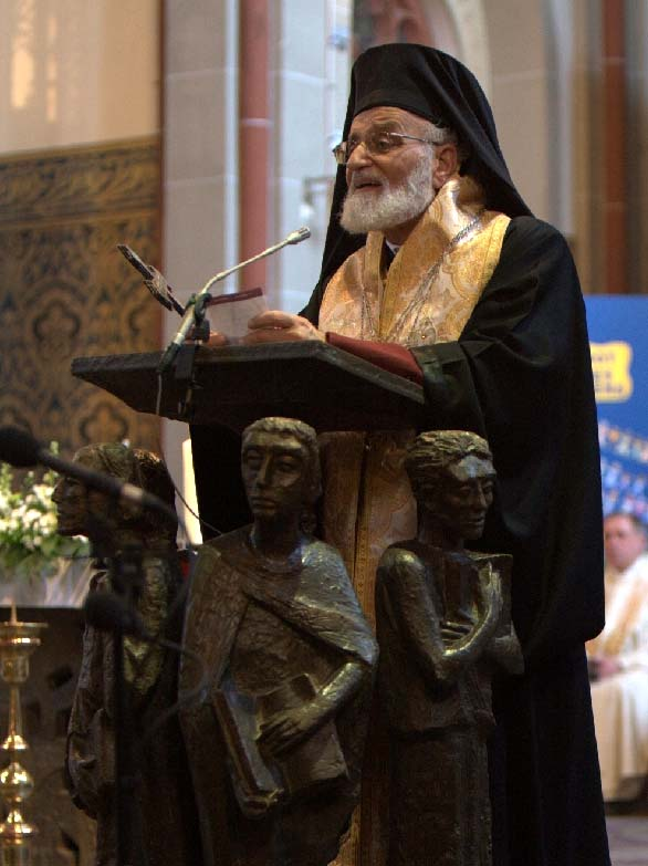 His Beatitude, Patriarch Gregorios III, at an investiture of the Order of St. Lazarus in Krefeld-Hüls.